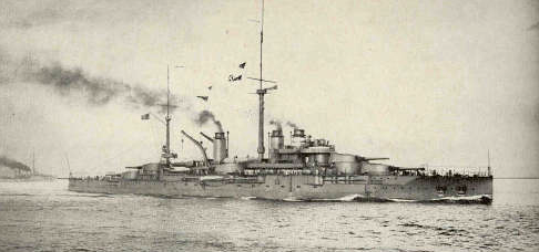 French battleship Jean Bart